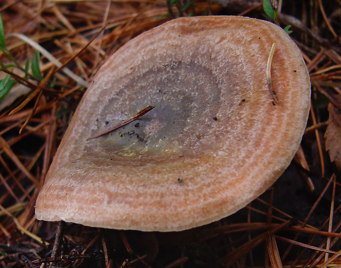 Lactarius quieticolor Romagn. Location: Basin of Vuyayany River, Yuganskij Reserve, Khanty-Mansi Autonomous Okrugâ%uFFFD%uFFFDYugra, Russia For more information about this, see the observation page at Mushroom Observer.